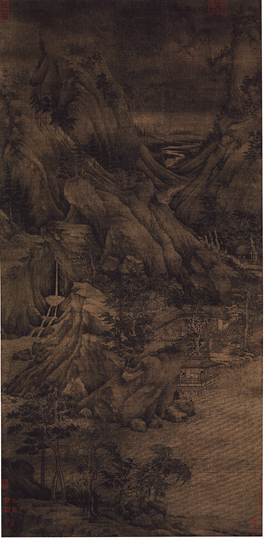 "Along the Riverbank" is one of the most famous early Chinese paintings, believed to have been painted by Dong Yuan sometime before 962 A.D. The original painting was bought by financier and philanthropist Oscar L. Tang as a gift for the Metropolitan Museum of Art in New York City.